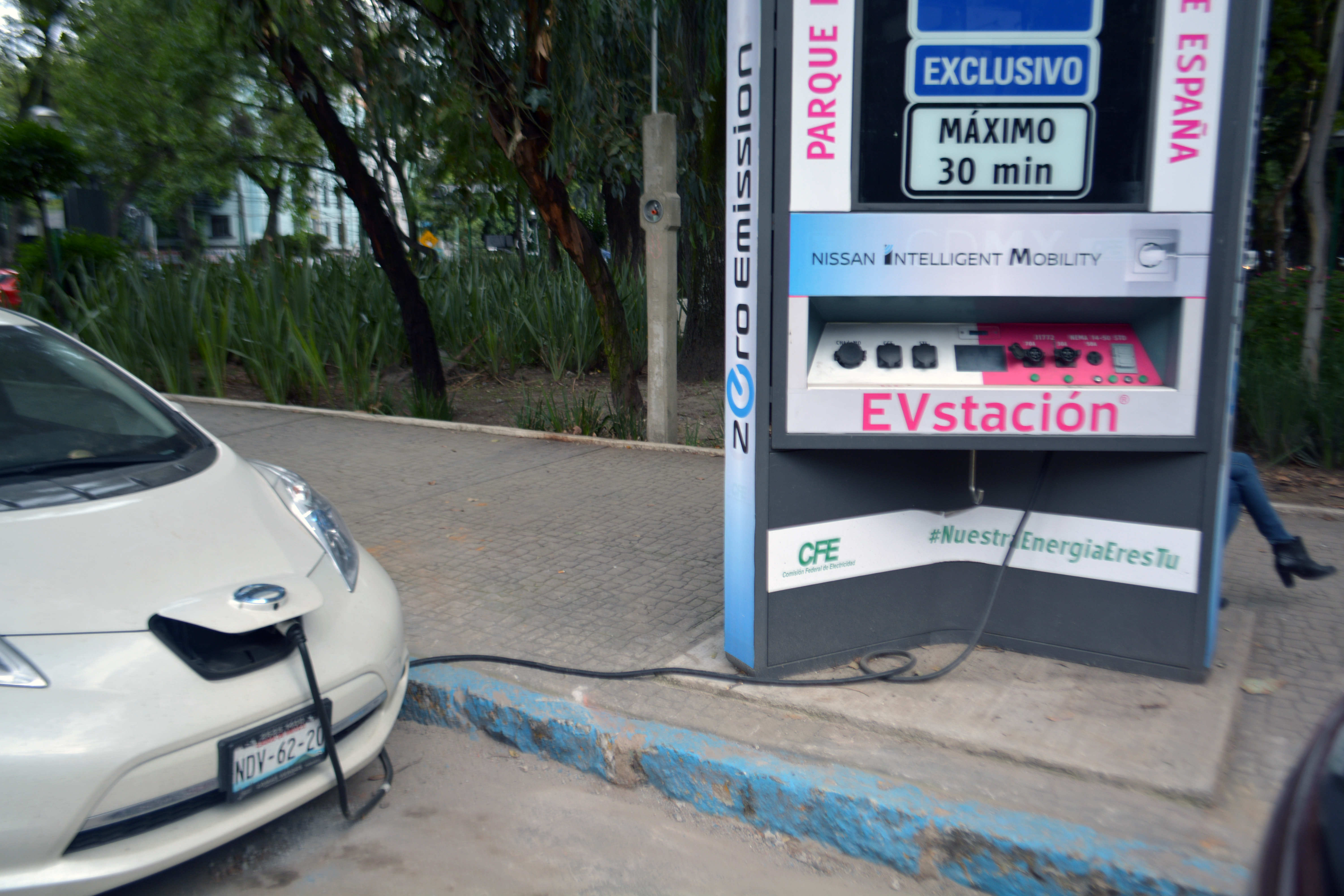 Electric car in public charging station Parque España (Spain Park), Mexico City.